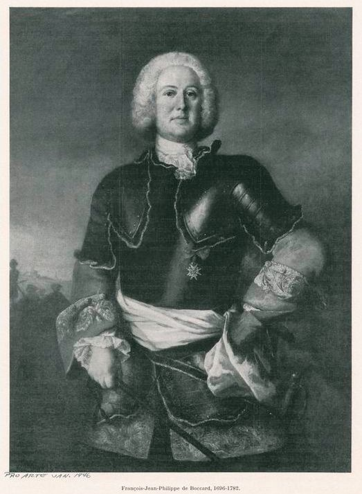 Francois Joseph Philippe Jean de Boccard, 1696-1782